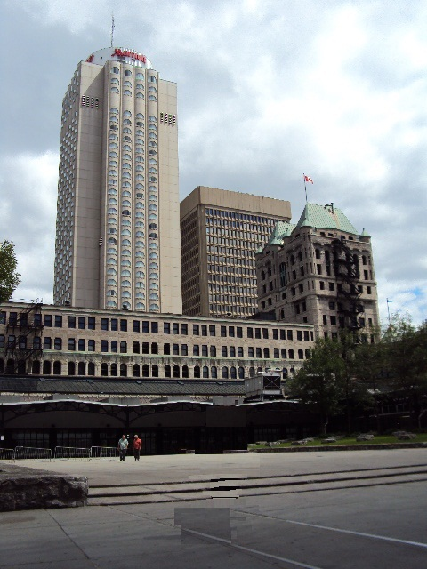 Montreal-Marriot Chateau Hotel near to Bell Centre